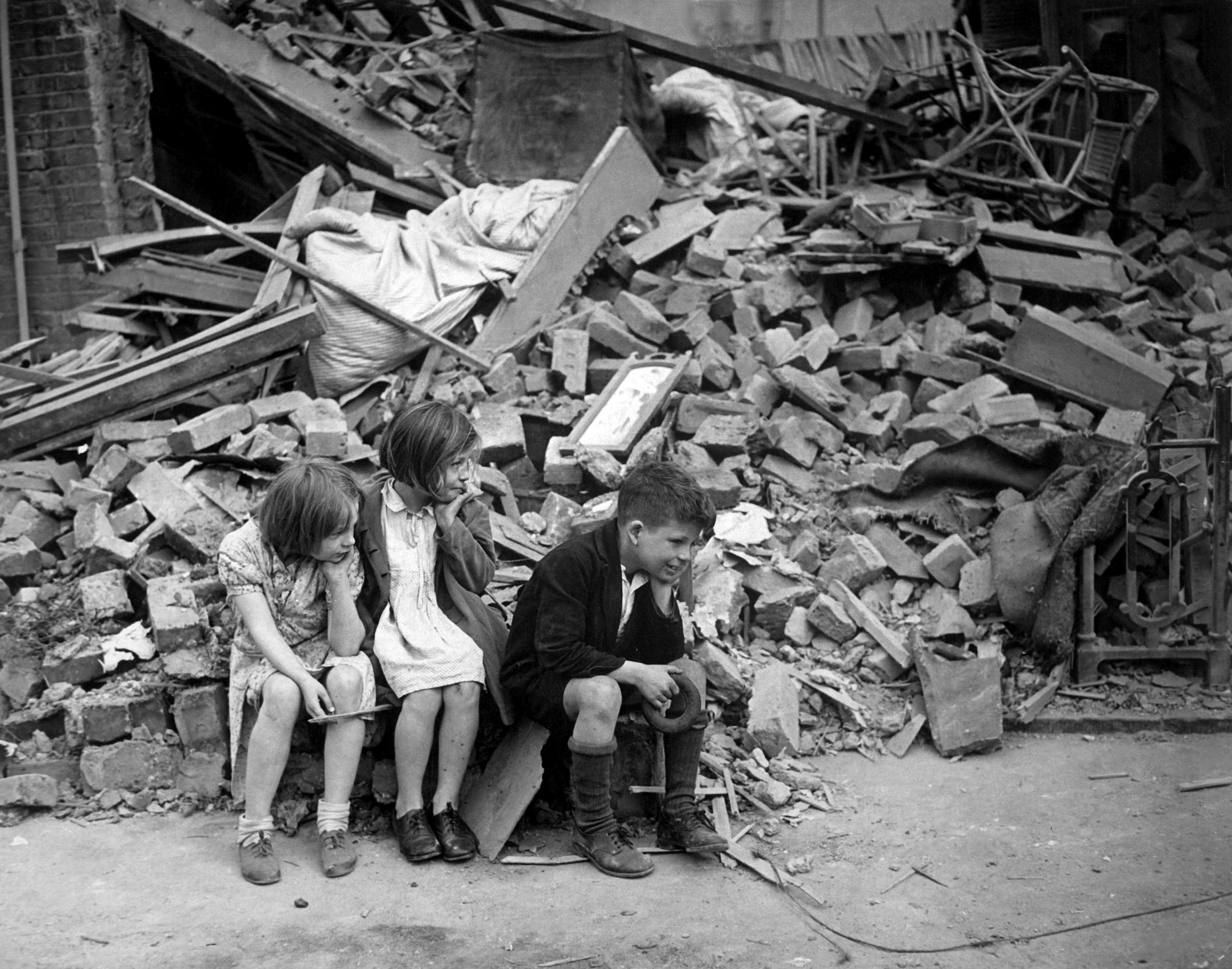 Summary: WWII: London Blitz (HD-SN-99-02668 DOD/NARA) Photo of East End of London during the Blitz. WWII. Author: September 1940. New Times Paris Bureau Collection. (USIA) Exact Date Shot Unknown NARA FILE #: 306-NT-3163V WAR & CONFLICT BOOK #: 1009 Public Domain. Additional source and credit info from source: Children of an eastern suburb of London, who have been made homeless by the random bombs of the Nazi night raiders, waiting outside the wreckage of what was their home. September 1940. New Times Paris Bureau Collection. (USIA) Exact Date Shot Unknown NARA FILE #: 306-NT-3163V WAR & CONFLICT BOOK #: 1009